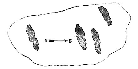 Lanyon Quoit - Morvah - Cornwall - UK